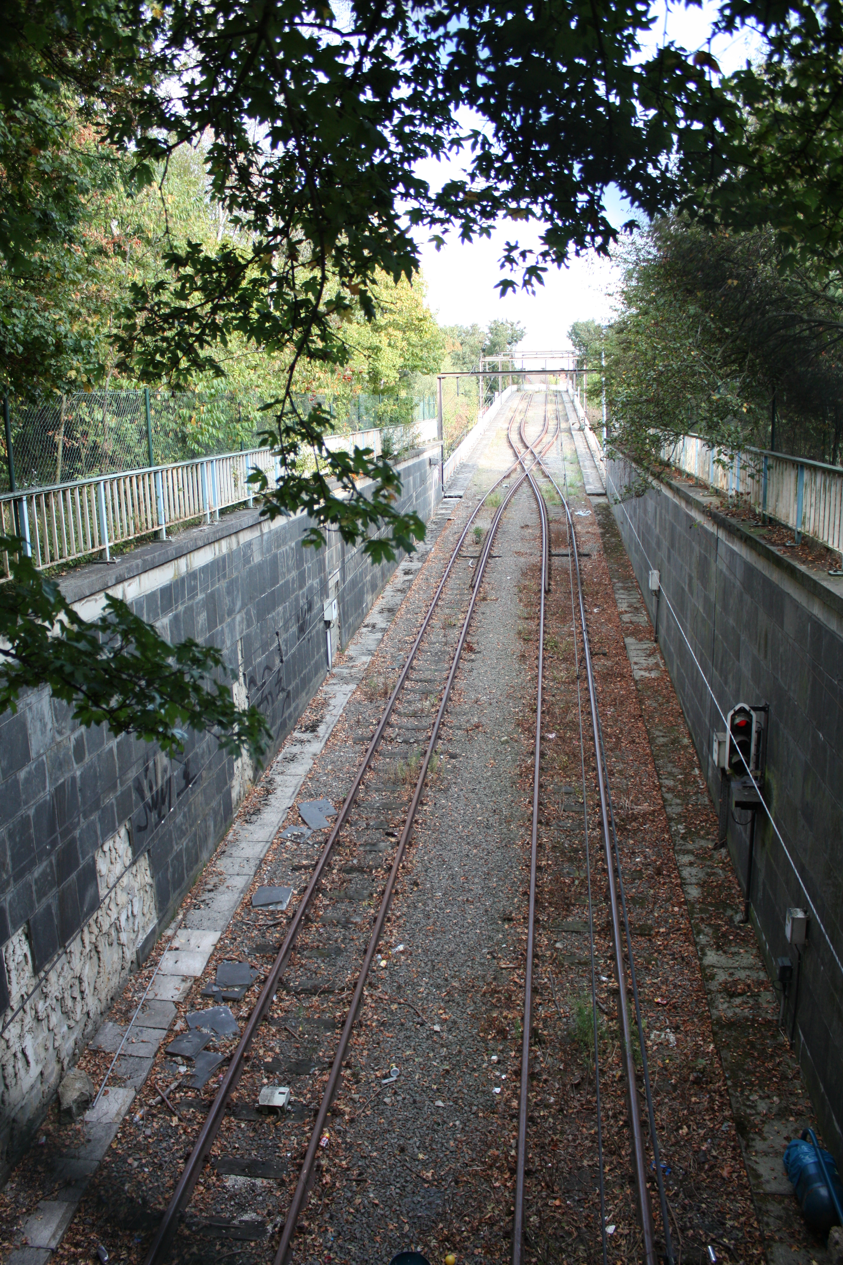 Crossover between Waterloo and Neuville stations, between teh N90/R9 highway. This section has never been used. Shot on 2009-09-19 on a tour of Charleroi's subway, kindly hosted by TEC-Charleroi. - OpenStreetMap(Info)